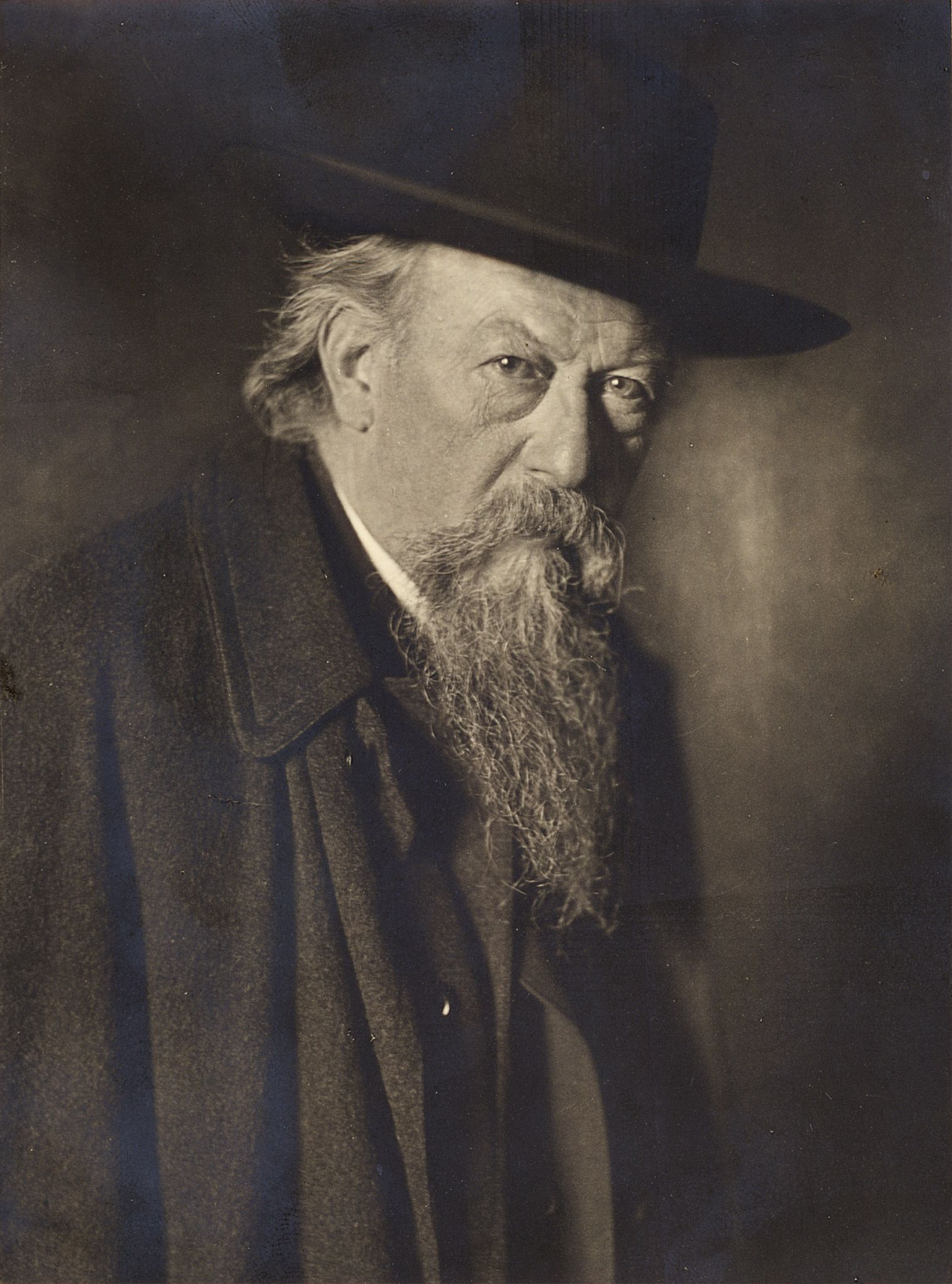 Swiss zoologist and comparative anatomist Arnold Lang (1855—1914).